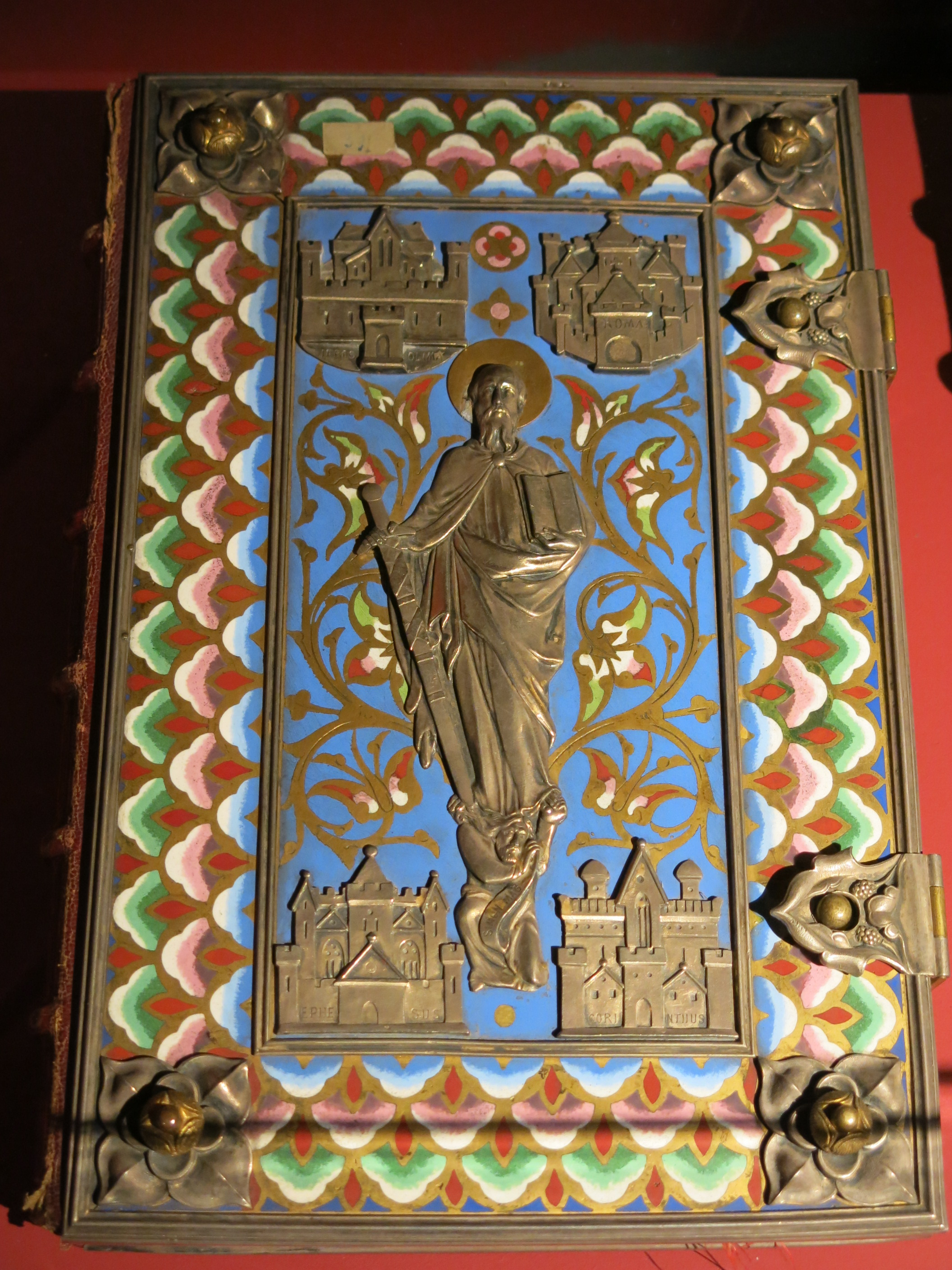 Epistolary of the treasury of the cathedral Notre-Dame de Paris (France). Goldsmithing (1868) by Jean-Alexandre Chertier (1825-1890) following drawings of Eugène VIollet-le-Duc. Réf. NDP99.